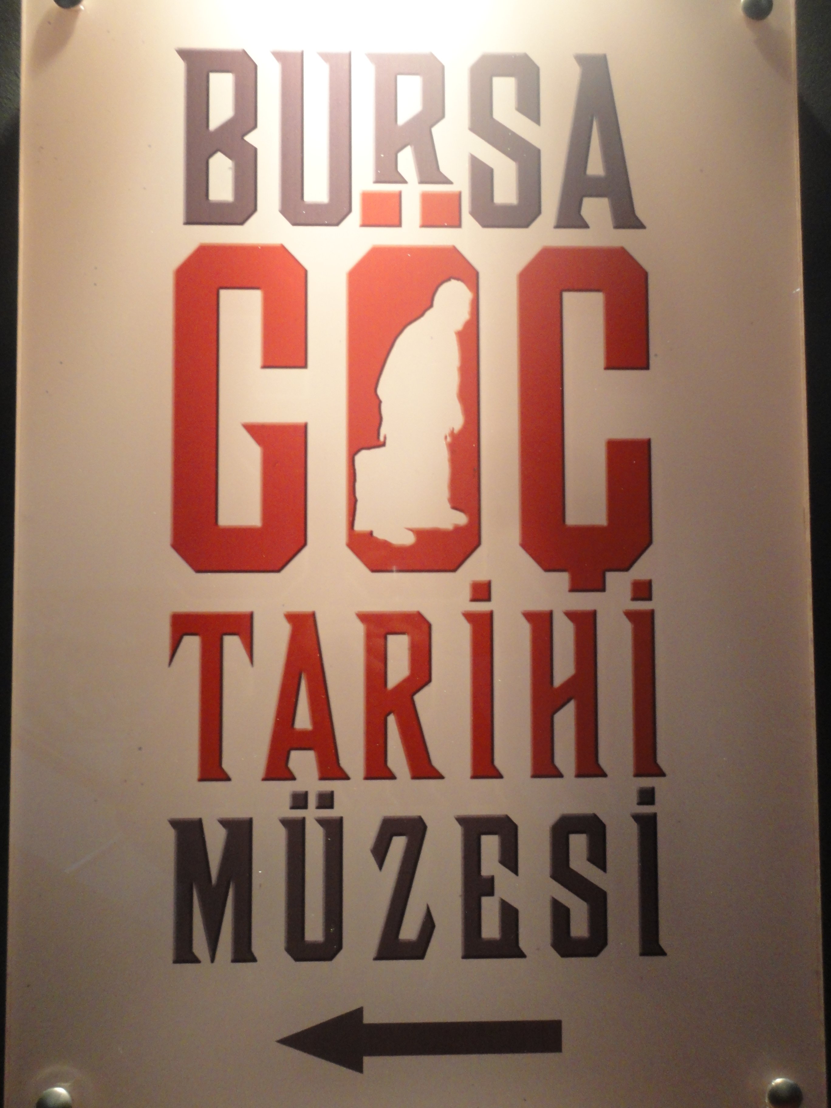 Bursa Migration Museum